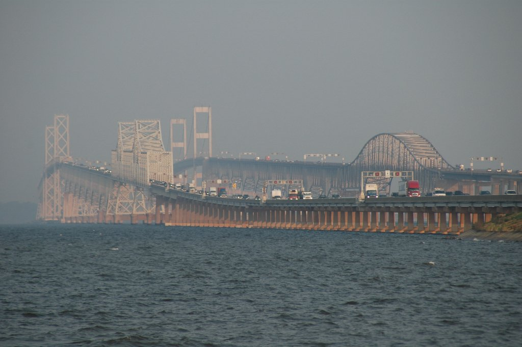 Chesapeake Bay Bridge